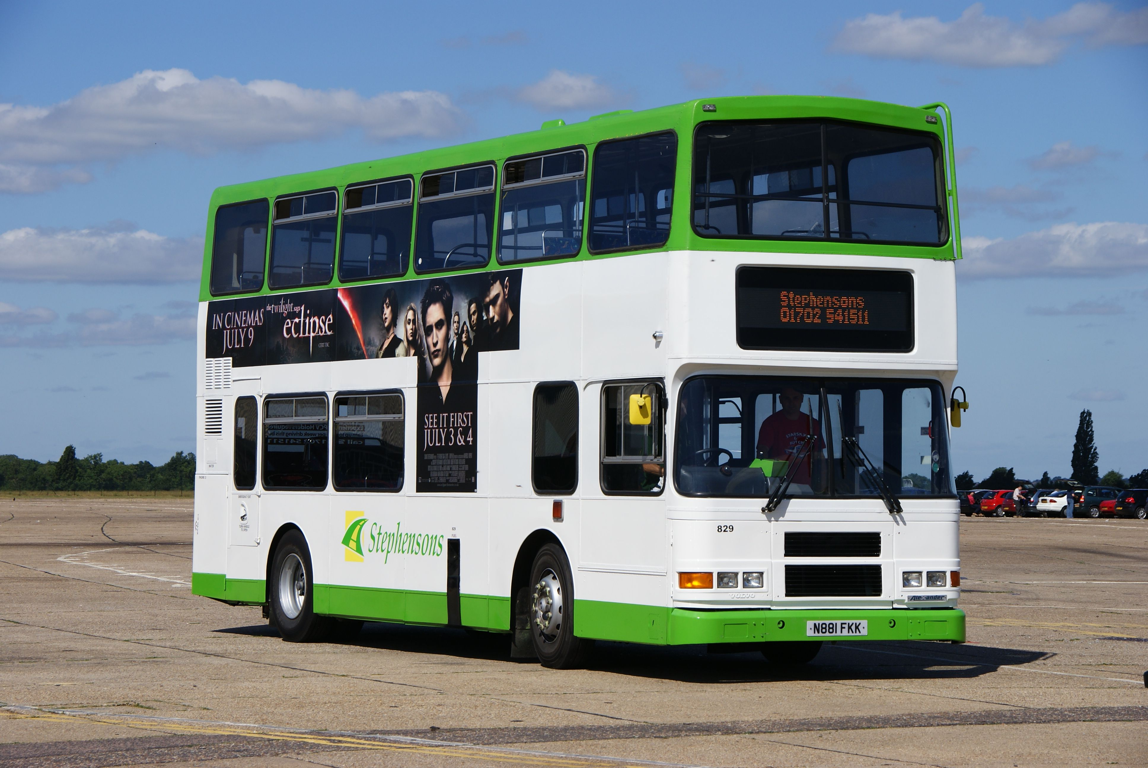 N881FKK-1 040710 CPS